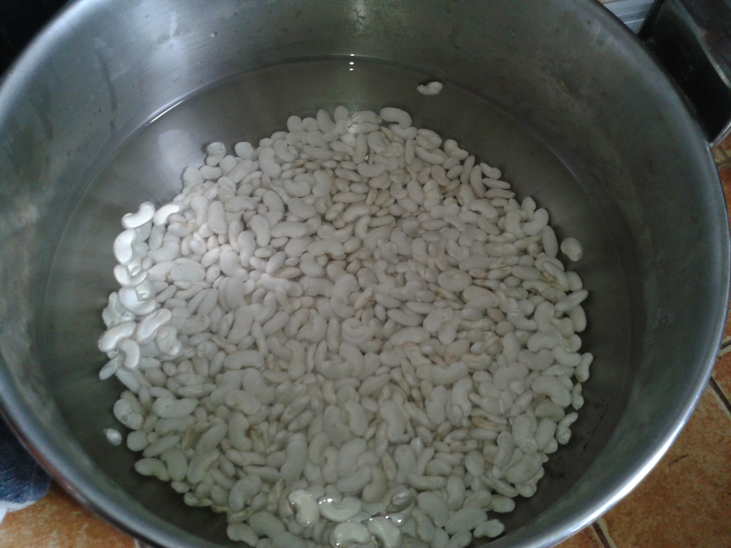 Mongeta del Ganxet, Hook Bean in Catalan.